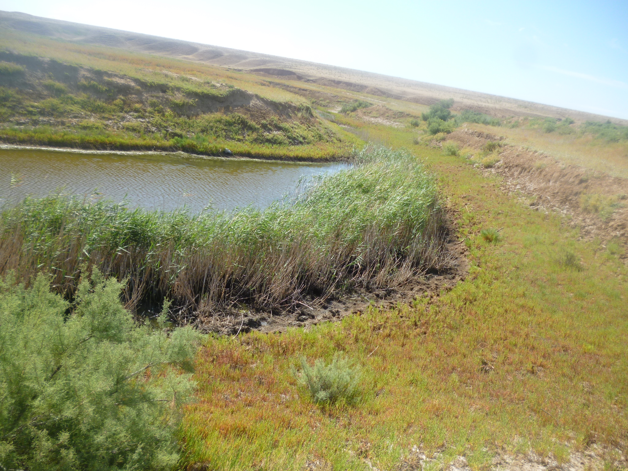 Yaskul River